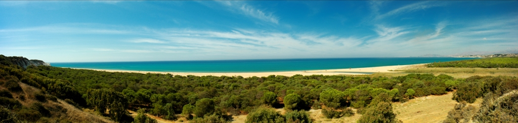 Stitched Panorama